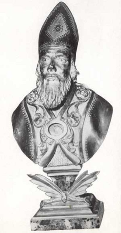 Statue of Saint Bassus